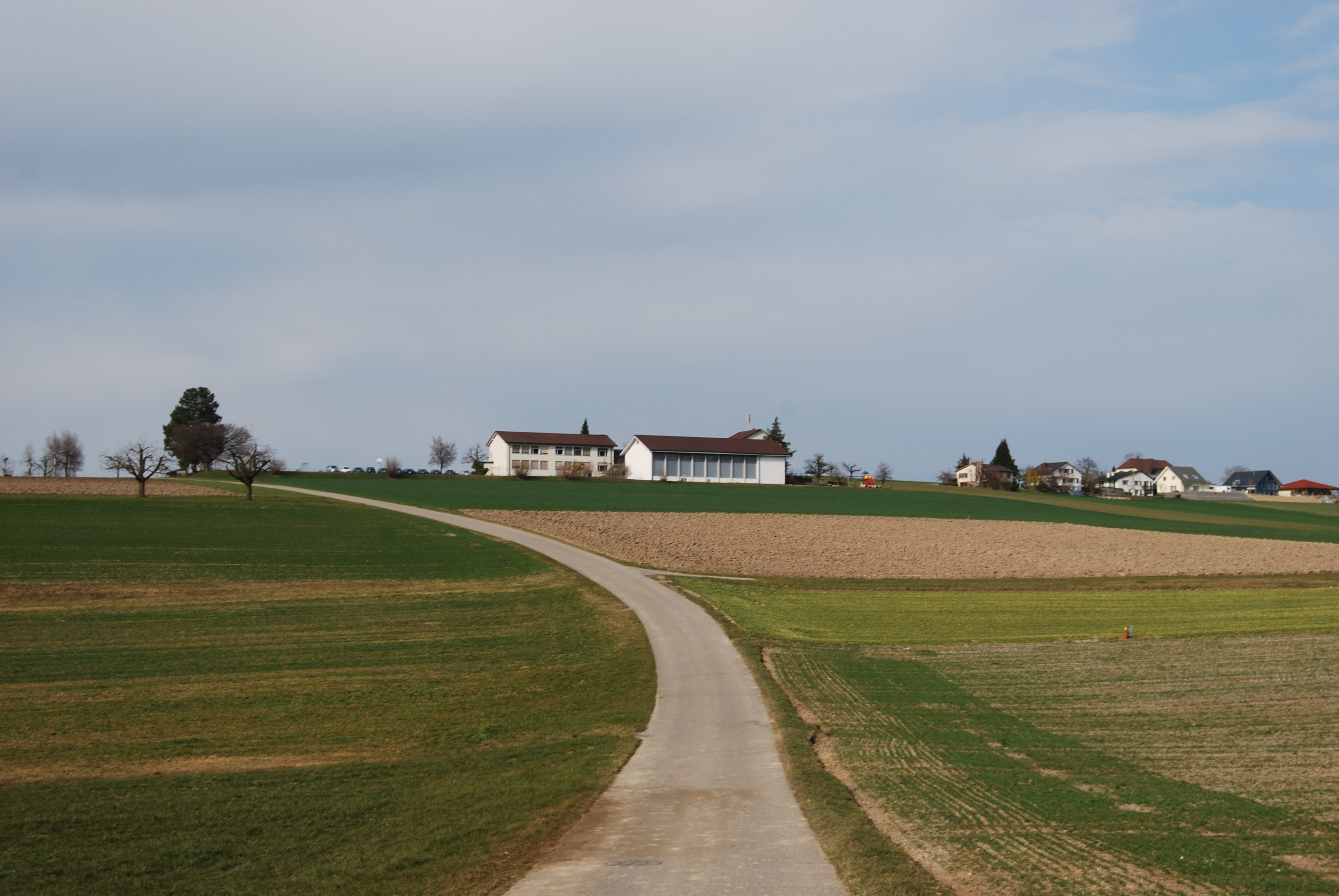 Obersteckholz, canton of Bern, SwitzerlandEsperanto: Obersteckholz, Kantono Berno, Svislando